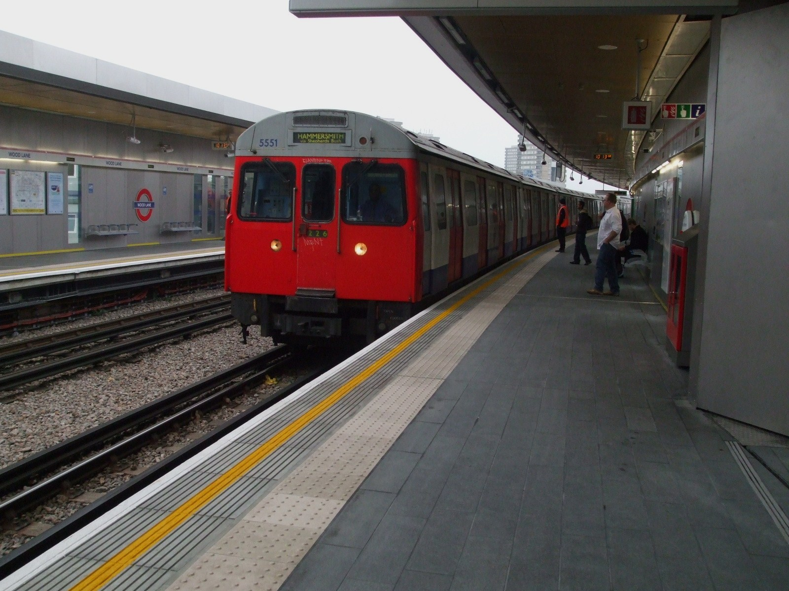 Hammersmith & City Line C Stock train calls at Wood Lane tube station with a westbound service a day after first opening